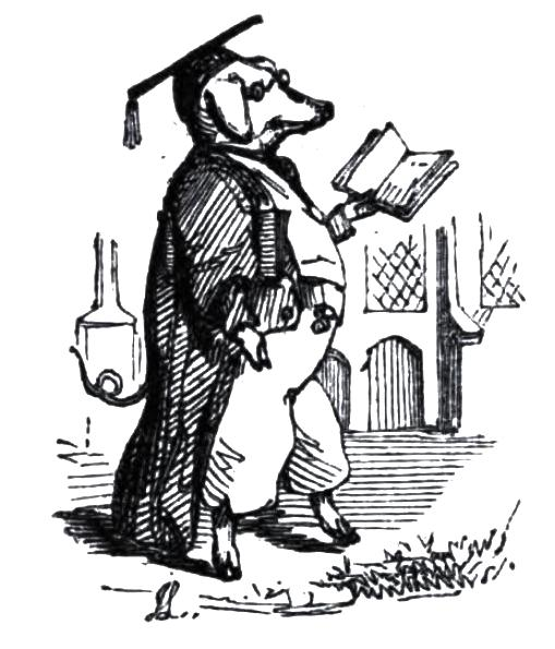 illustration from Leech's comic latin grammar